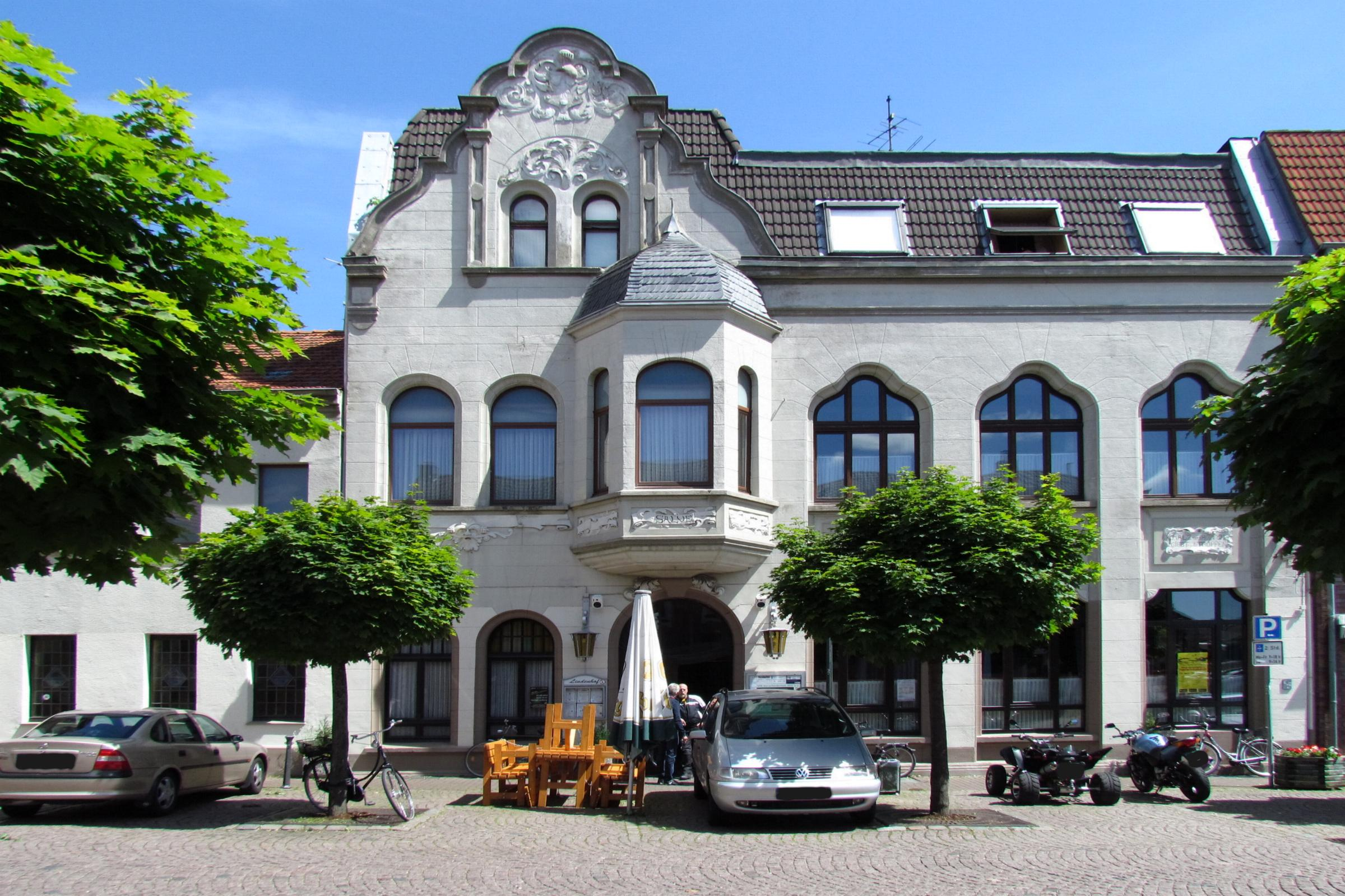 This is a photograph of an architectural monument.It is on the list of cultural monuments of Korschenbroich